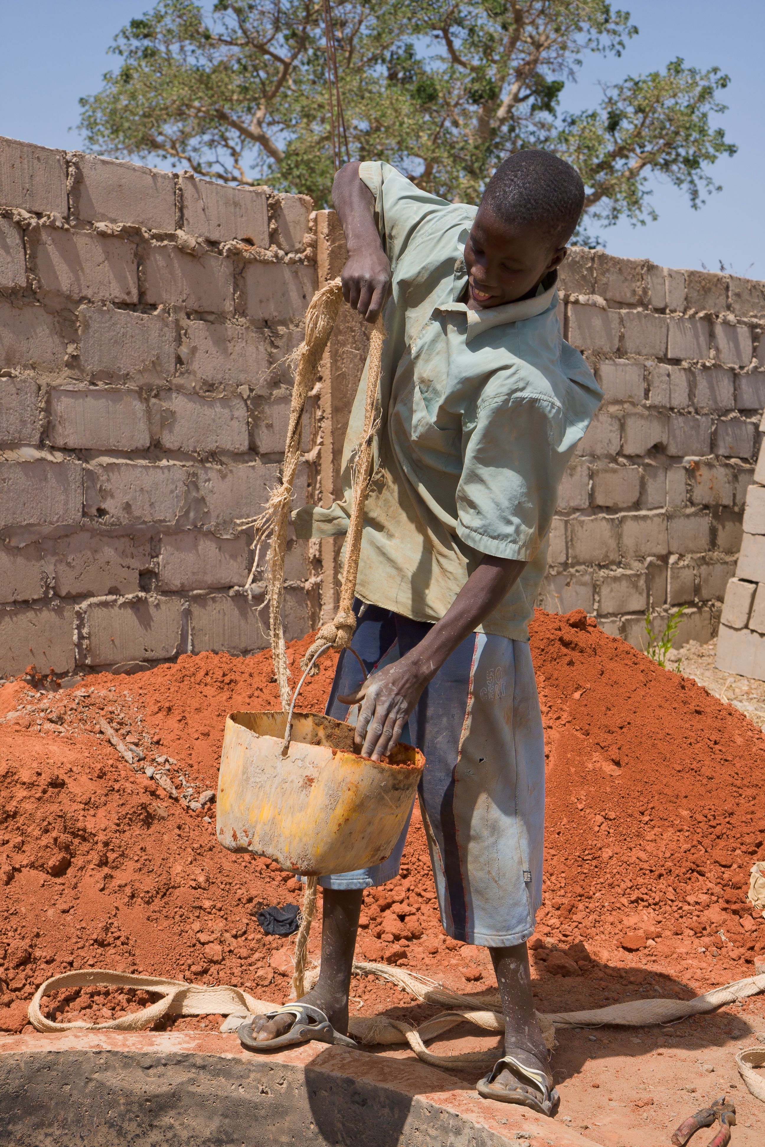 A gambian child worker carrys dust out of a pit.